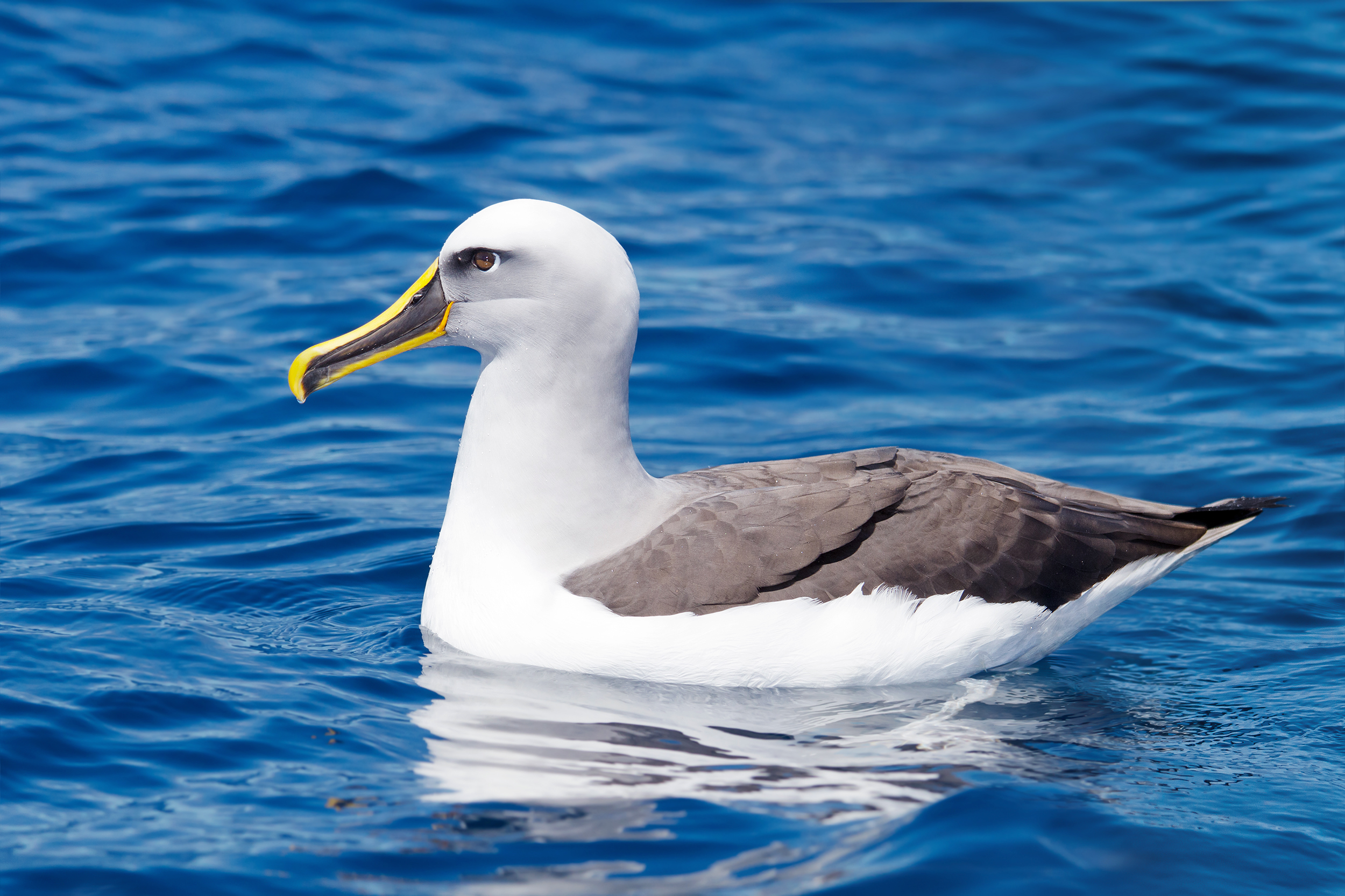 Buller's Albatross (Thalassarche bulleri), East of the Tasman Peninsula, Tasmania, Australia